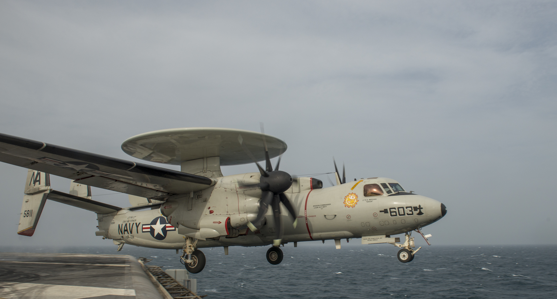 150211-N-TP834-143 ARABIAN GULF (Feb. 11, 2015) An E-2C Hawkeye from the Sun Kings of Carrier Airborne Early Warning Squadron (VAW) 116 launches from the flight deck of aircraft carrier USS Carl Vinson (CVN 70) as the ship conducts flight operations in the U.S. 5th Fleet area of operations supporting Operation Inherent Resolve. The Carl Vinson Carrier Strike Group is currently deployed to the area supporting maritime security operations, strike operations in Iraq and Syria as directed, and theater security cooperation efforts in the 5th Fleet AOR. (U.S. Navy photo by Mass Communication Specialist 2nd Class John Philip Wagner Jr./Released)